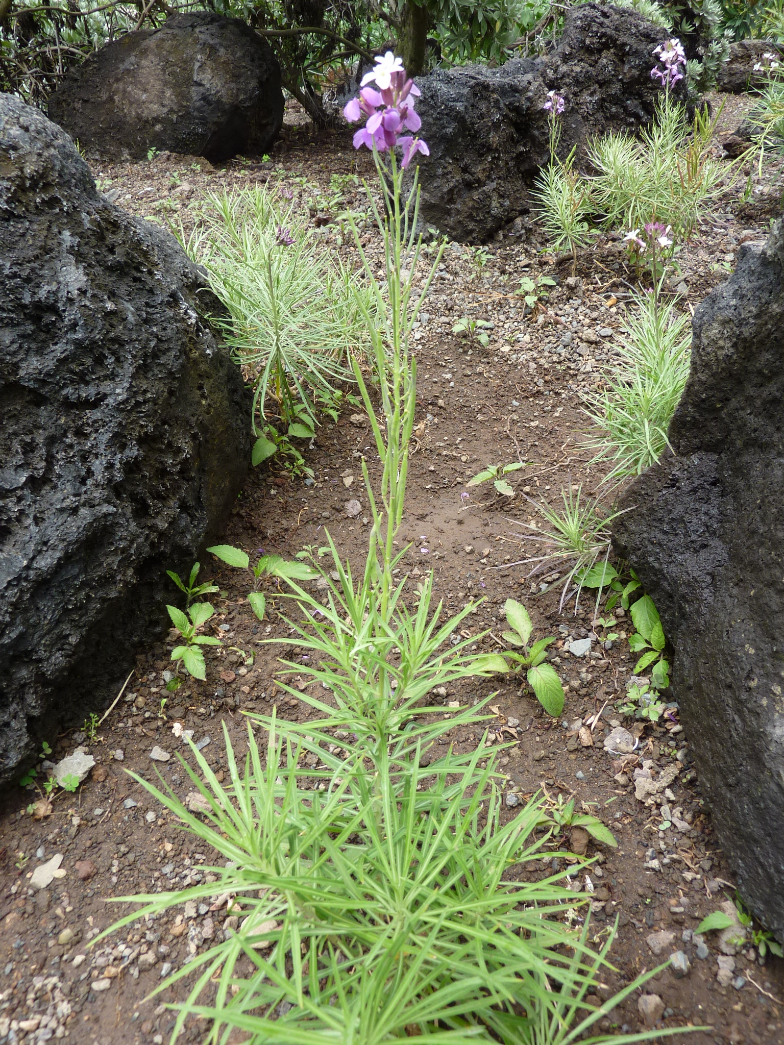 Erysimum caboverdeanum in the Jardín Botánico Canario Viera y Clavijo.